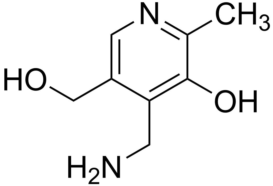 chemical structure of pyridoxamine